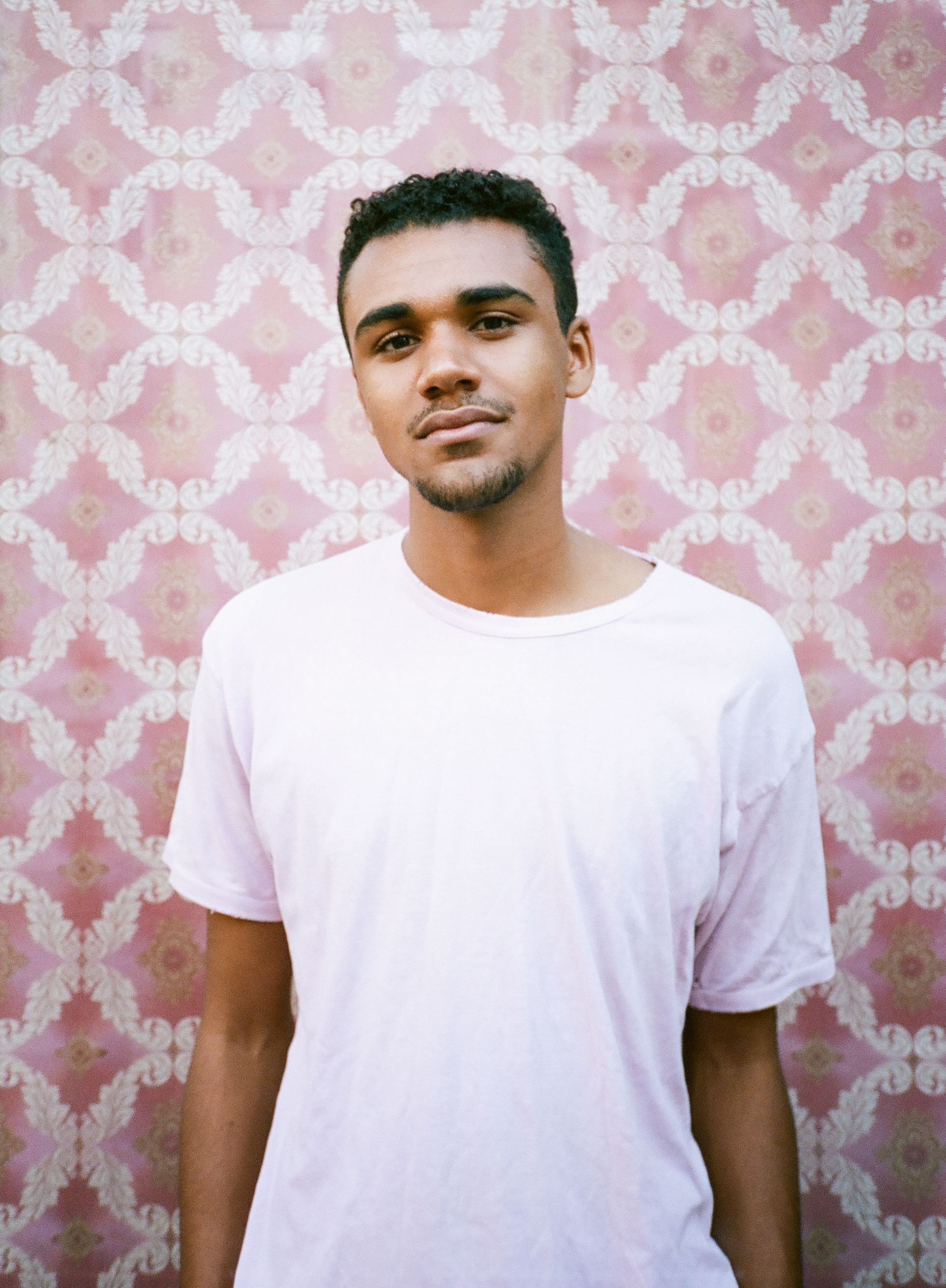 The actor Langston Uibel in Berlin by Shirin Siebert.